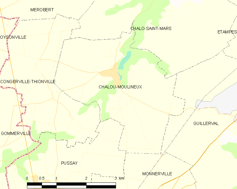 Map of French municipality Chalou-Moulineux